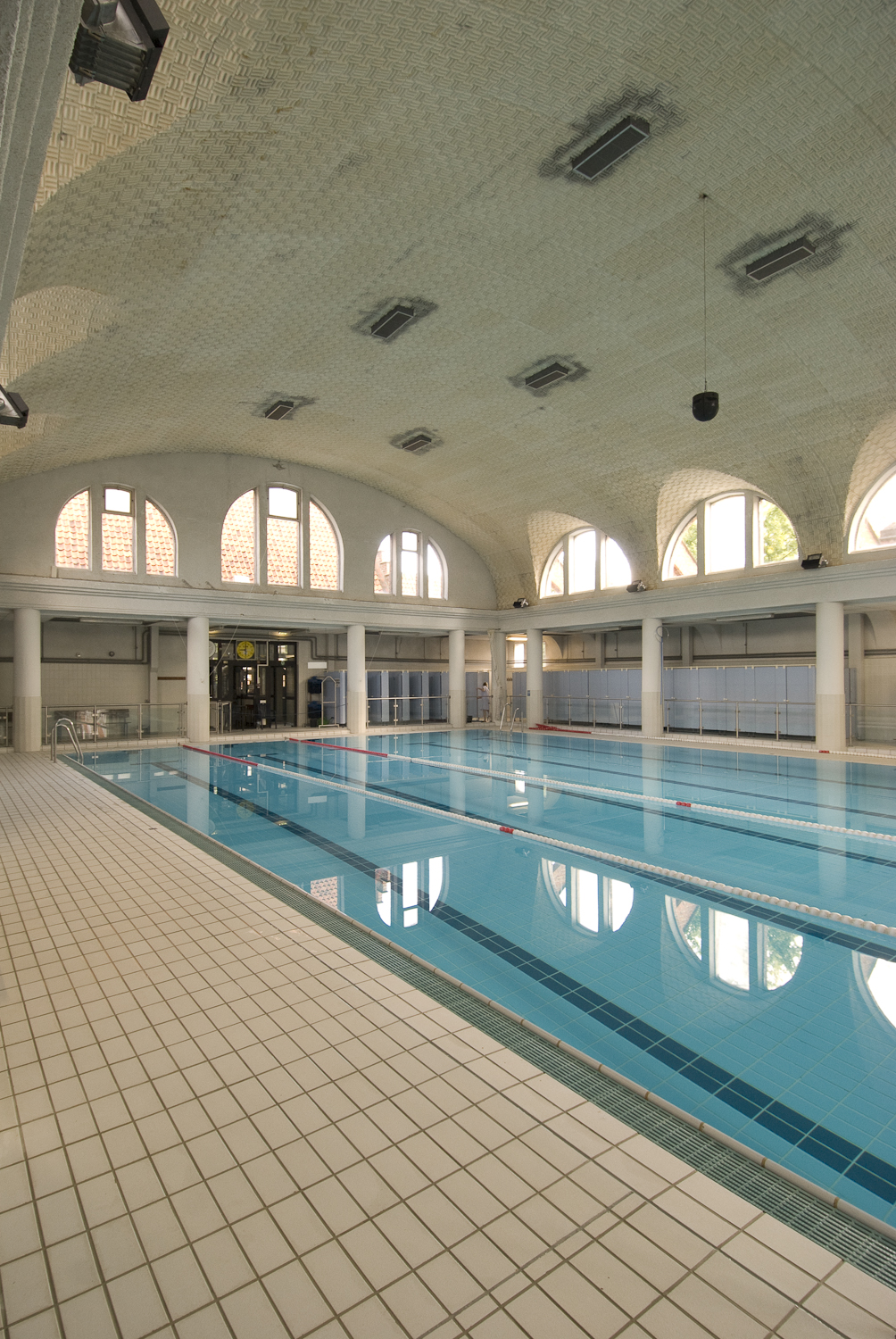 Interior of Jan-Guilini-swimming pool, 37, Keizer Karelstraat, Bruges